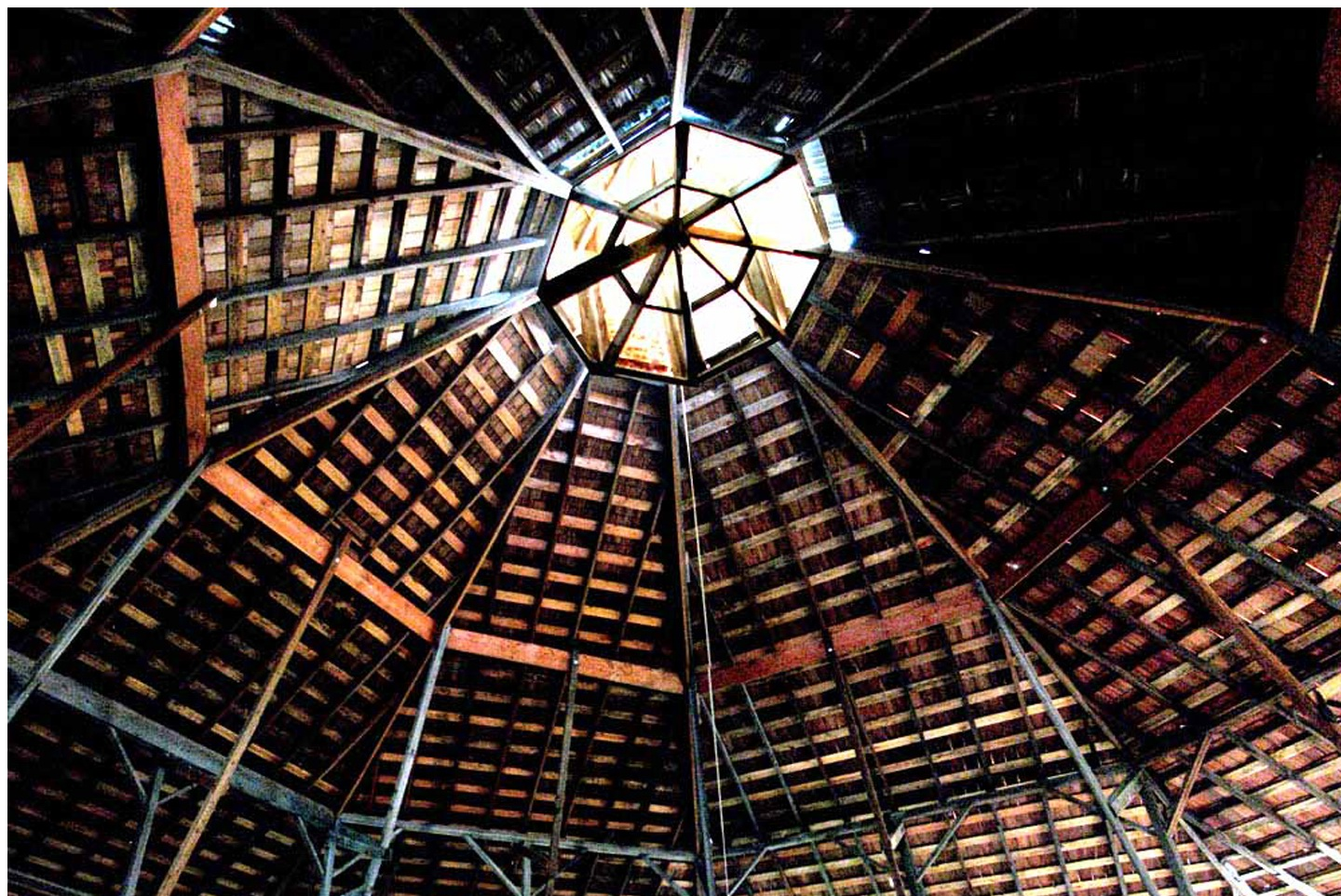 Octagon Barn (San Luis Obispo, California) Interior (roof) and Exterior